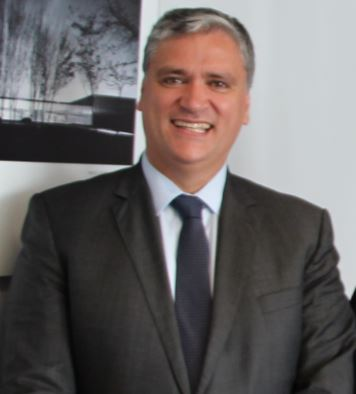 Cropped photo of Vasco Cordeiro at a meeting with the European Commission for Regional Policy in May 2016